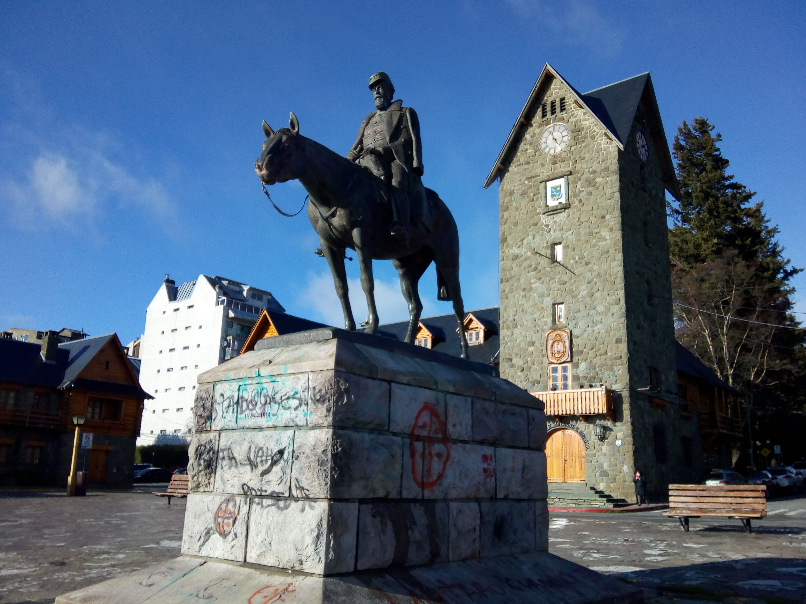 Monumento al General Julio Argentino Roca en la plaza que lleva el nombre "Expedicionarios del desierto"